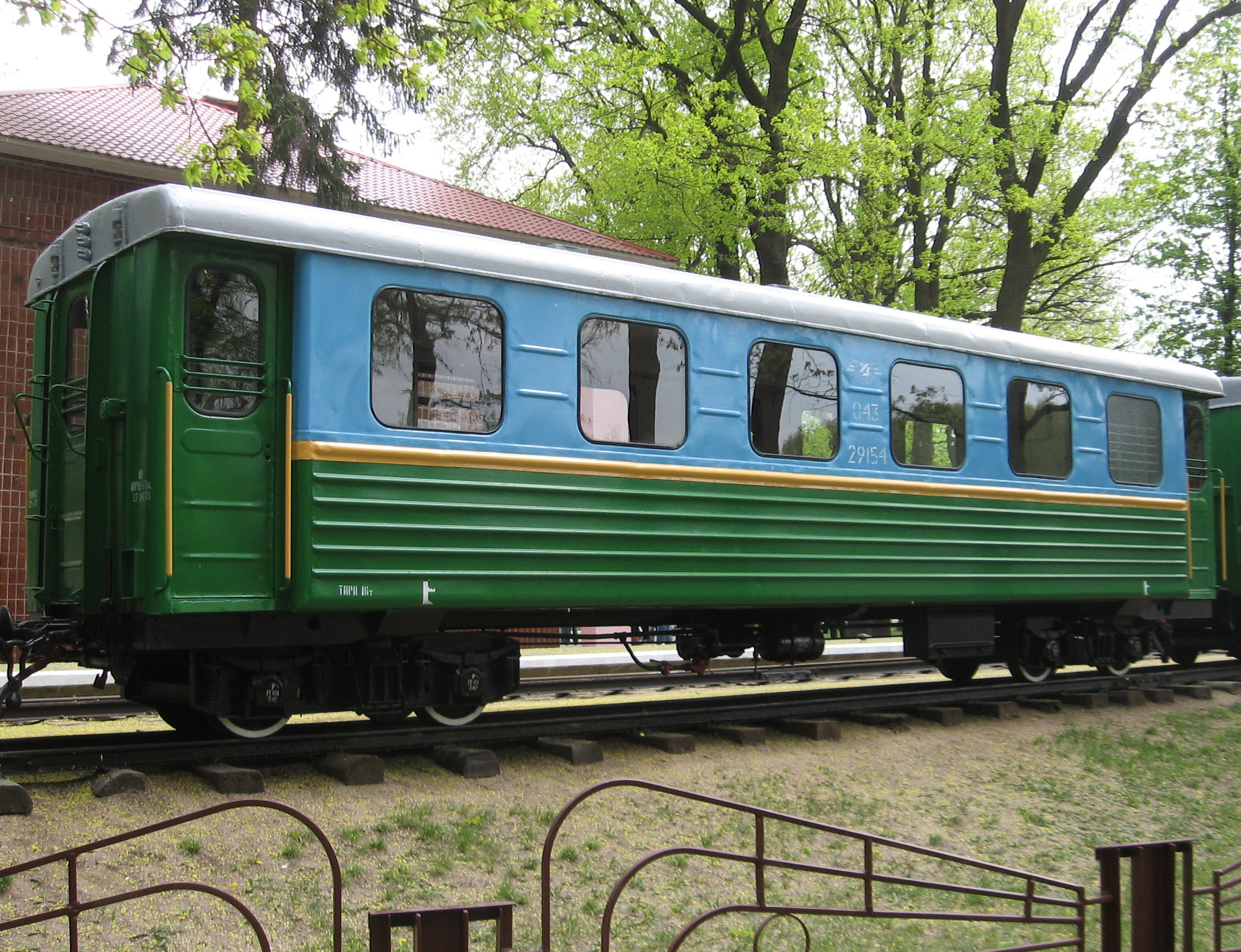 narrow-gauge PV51 railcar on Kharkiv children's railway